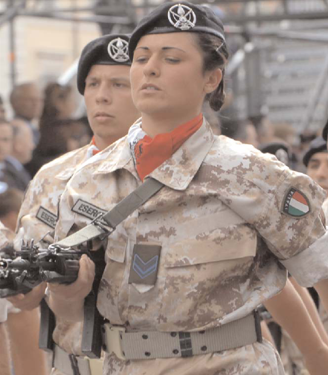 Soldiers of the Sassari Brigade. Downloaded from the official homepage of the Italian Army.